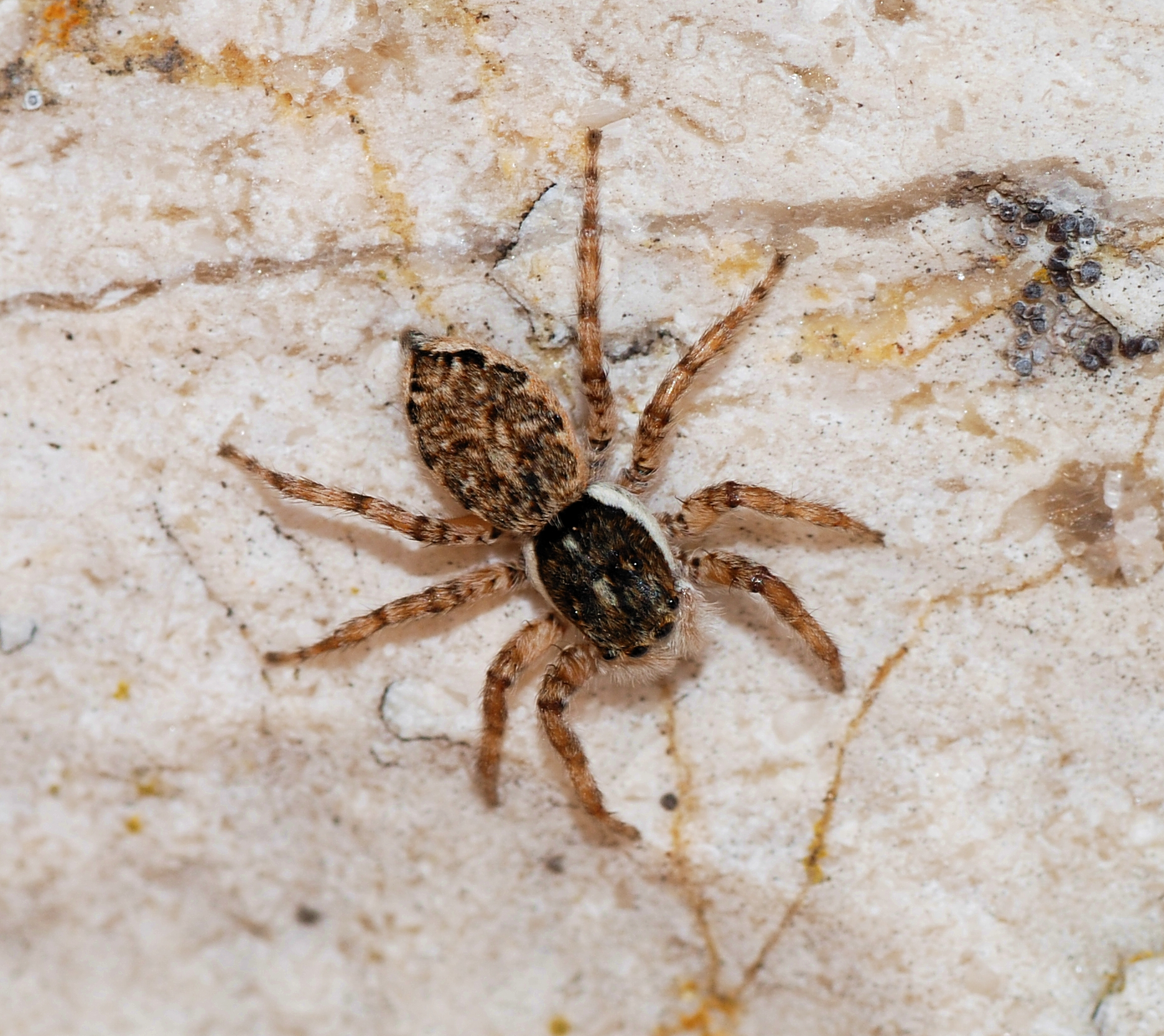 Jumping spider. Taken in Algarve, south of Portugal.